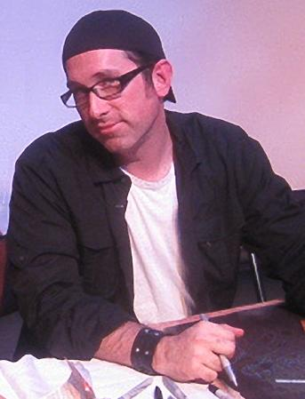 Darren Lynn Bousman at the Repo! Road Tour at the Orpheum theater in Foxboro, MA.